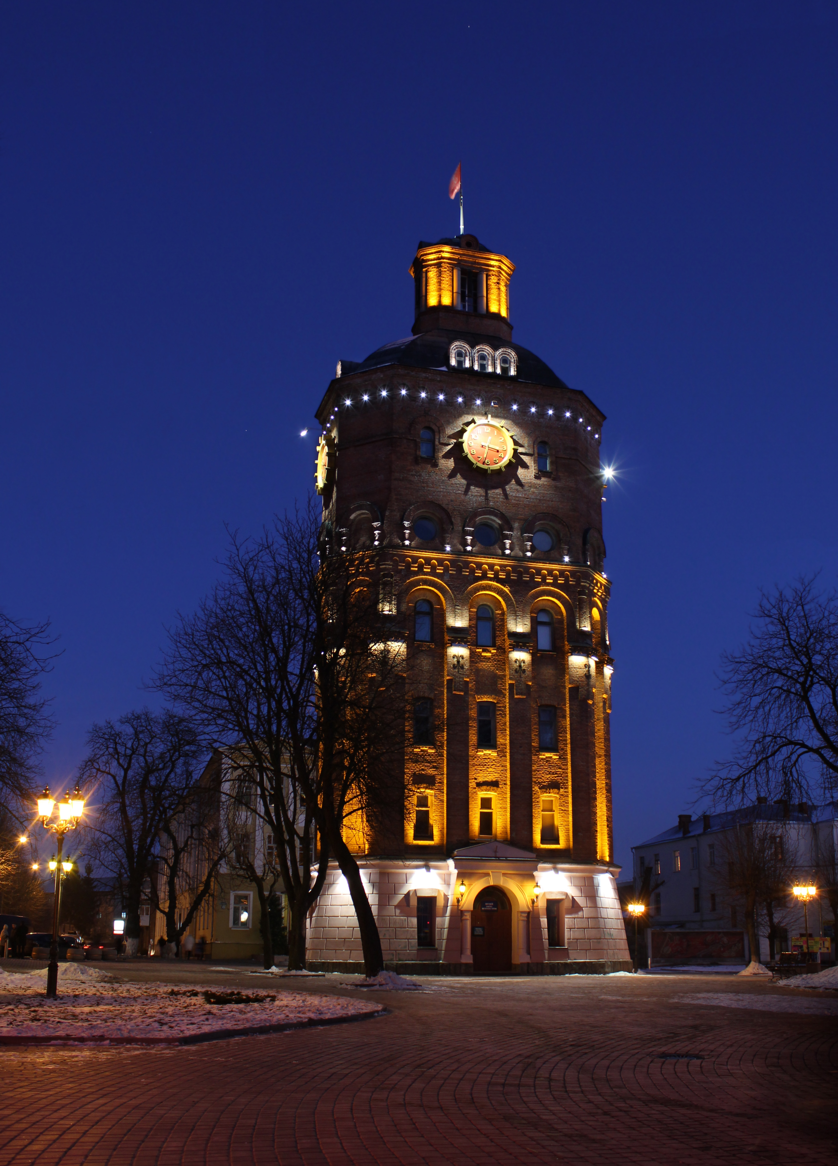 The former water tower in the center of Vinnytsia, Ukraine. View in the winter evening.